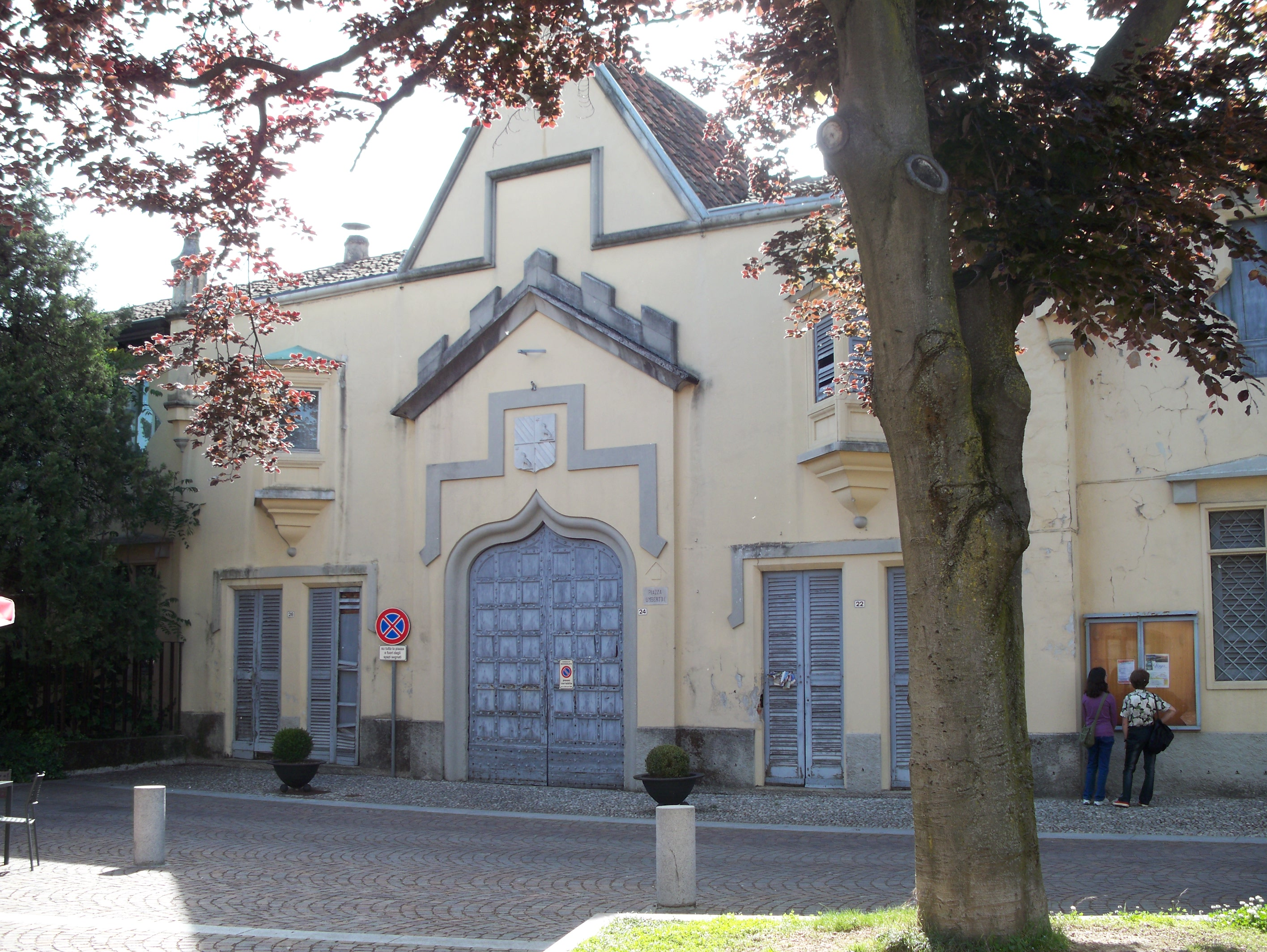 Villa Casana, Novedrate